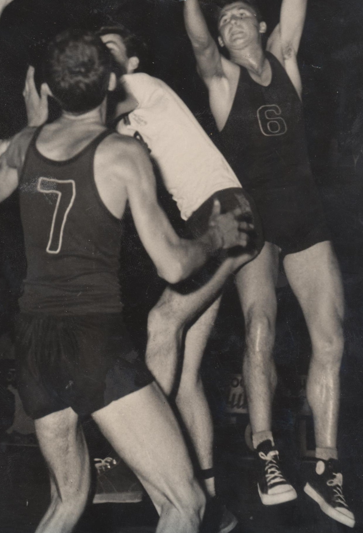 Game between Borac Cacak and KK Pirot in 1962